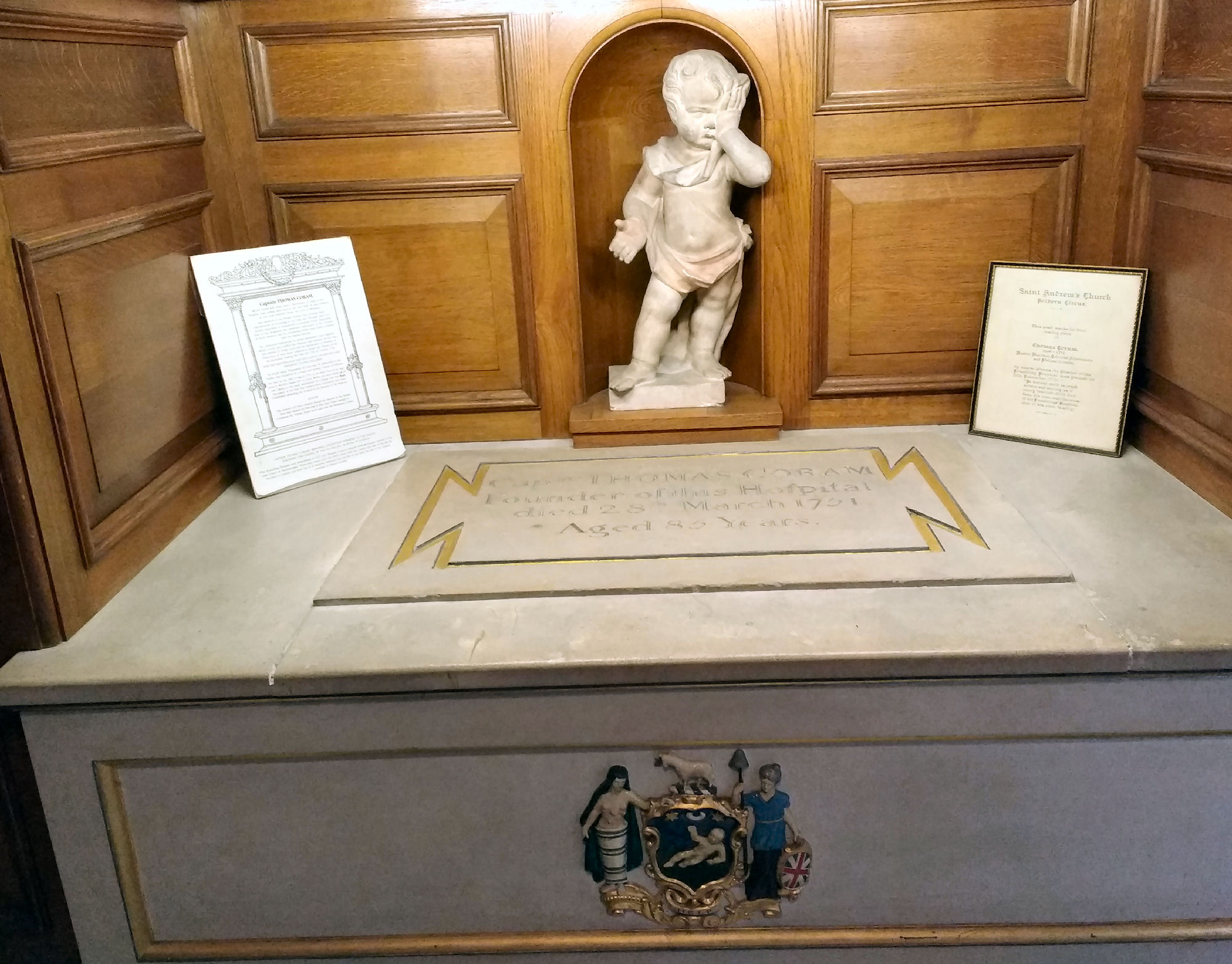 Thomas Coram memorial, St Andrew, Holborn. "Capt Thomas Coram founder of this hospital died 28th March 1751 aged 85 years". These remains were moved from the Foundling Hospital Chapel in Berkhamsted (now Ashlyns School) in the 1950s.